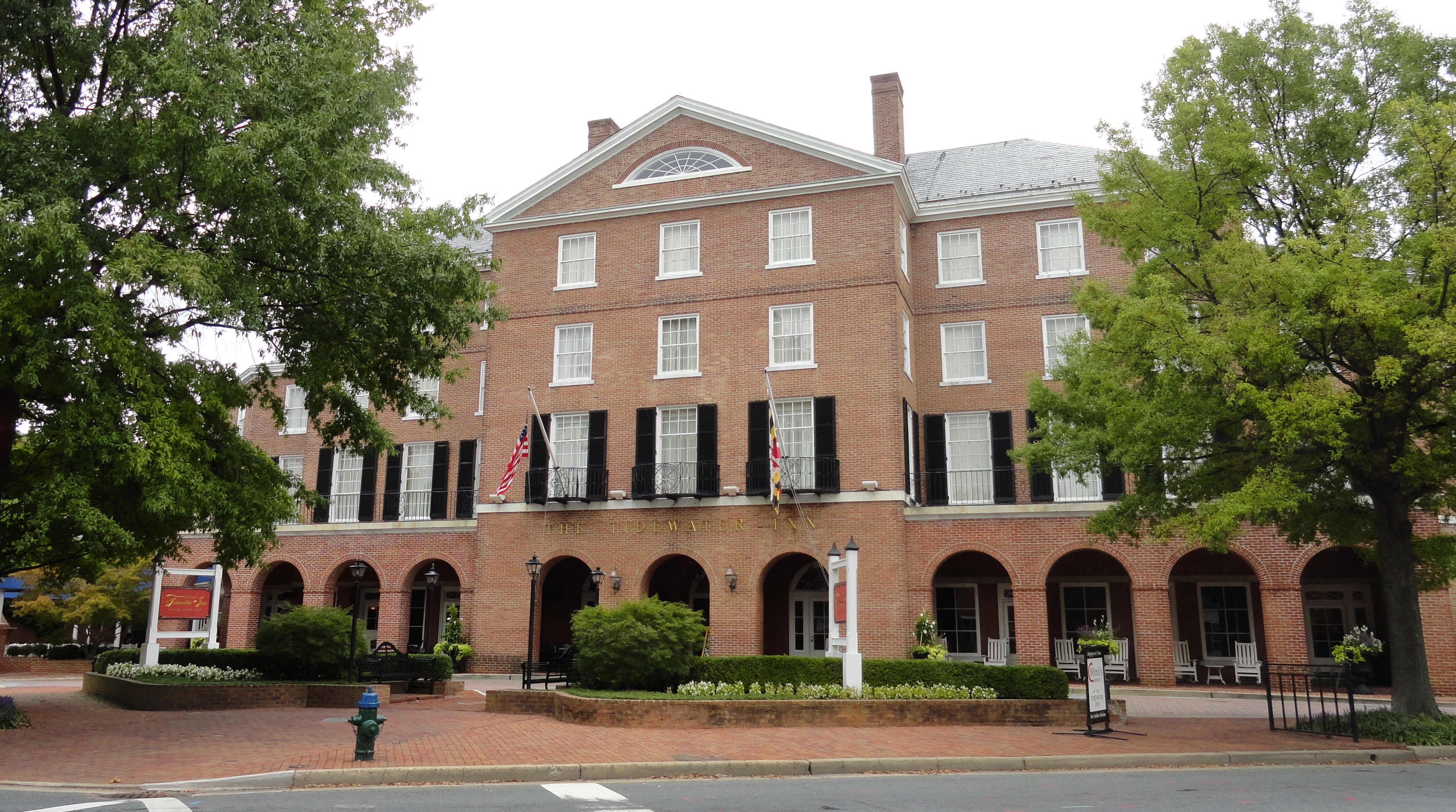 Tidewater Inn After two years of construction, the Tidewater Inn opened on September 3, 1949.